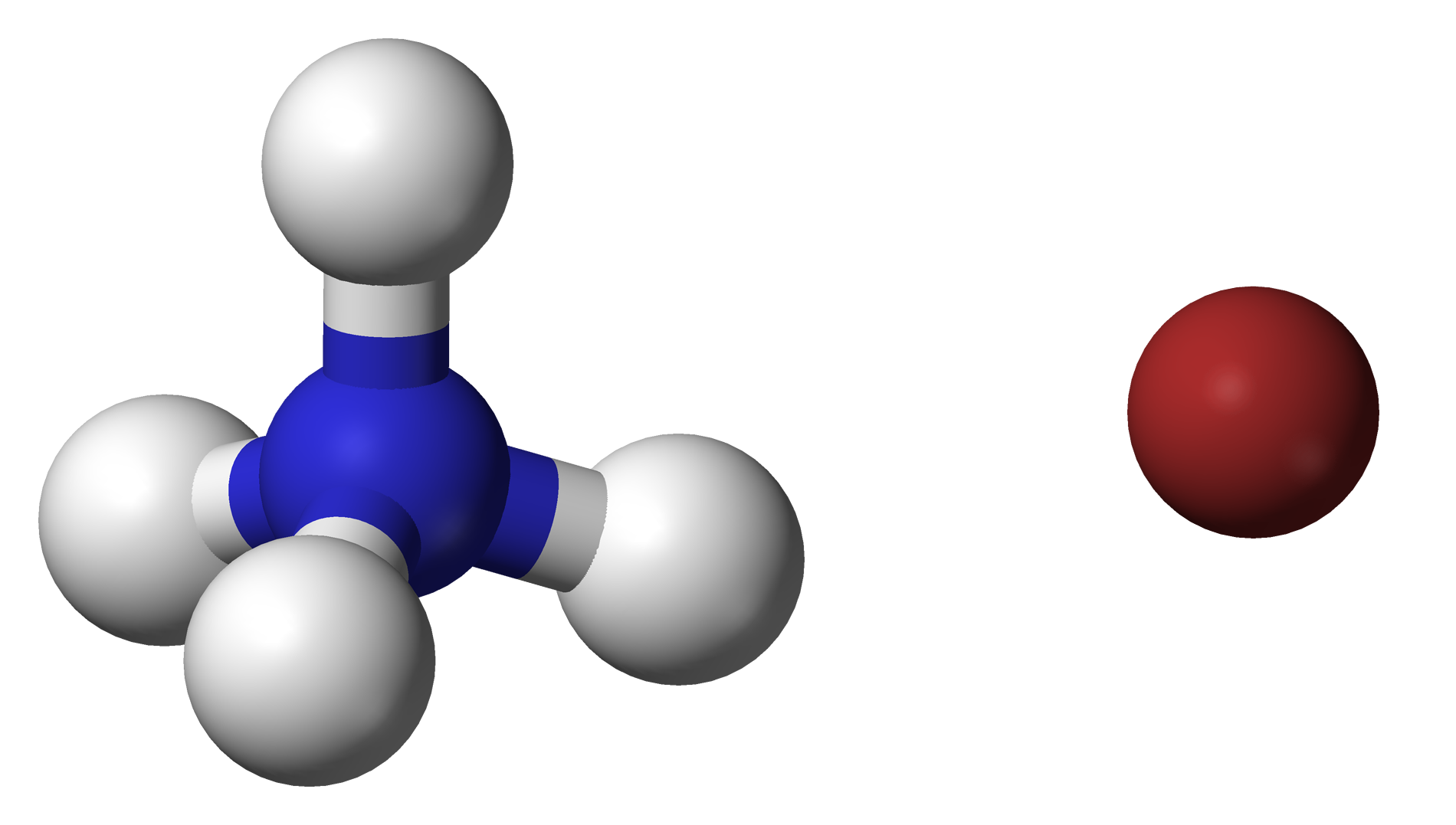 Ball-and-stick model of ammonium bromide, showing an ammonium cation (left) and a bromide anion (right).